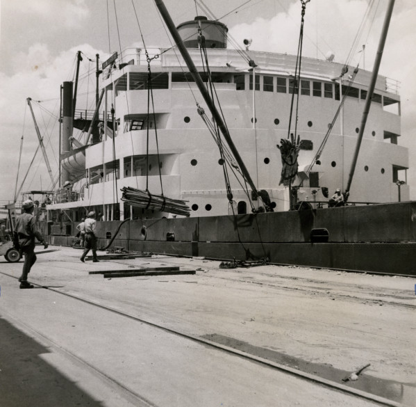 SS Jean Lafitte at the Long Beach division warehouse and docks on the Houston Ship Channel in Texas